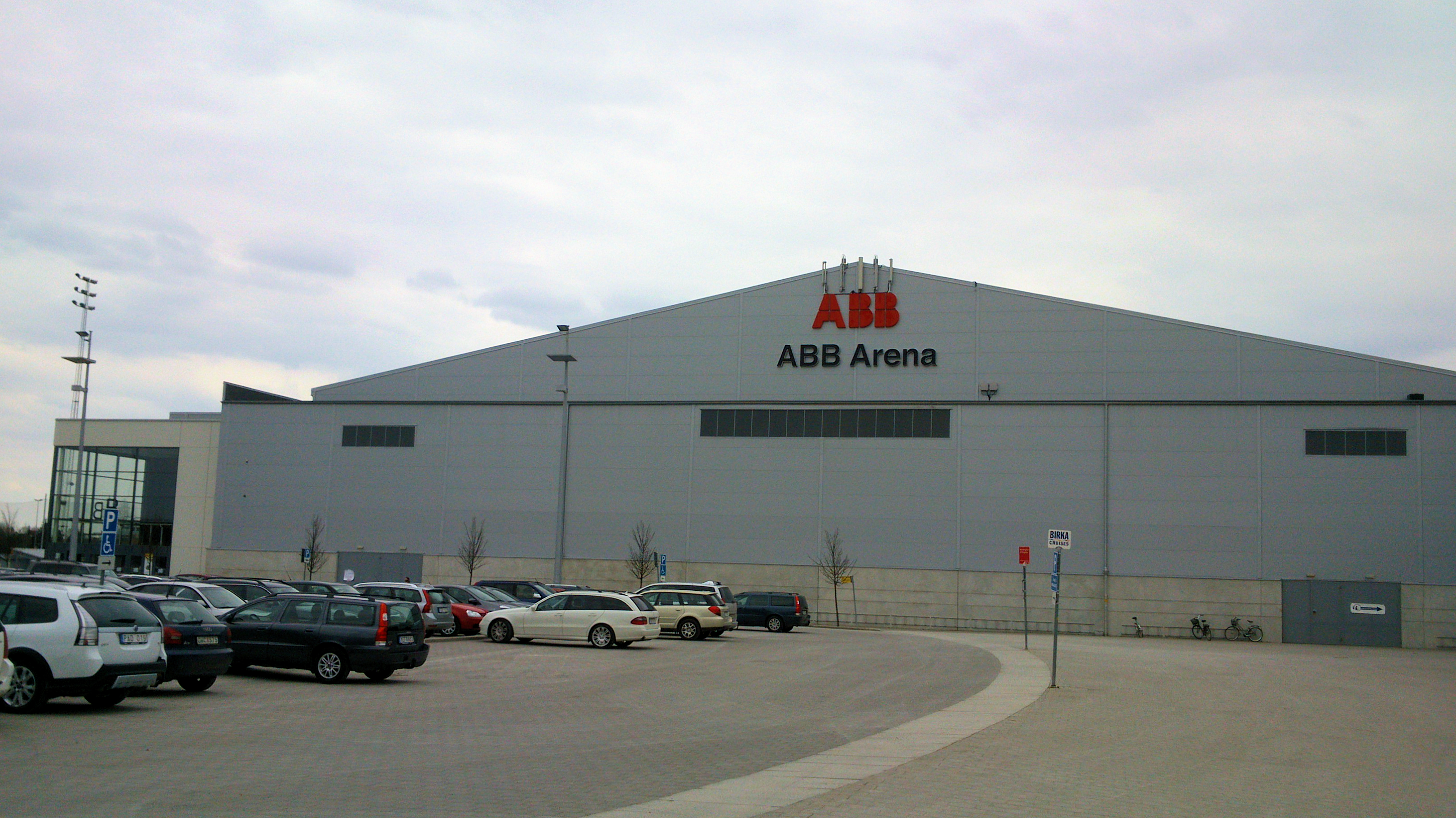 ABB Arena Syd in Västerås, Sweden. Multi sports and bandy hall of Rocklunda sports park in Västerås.